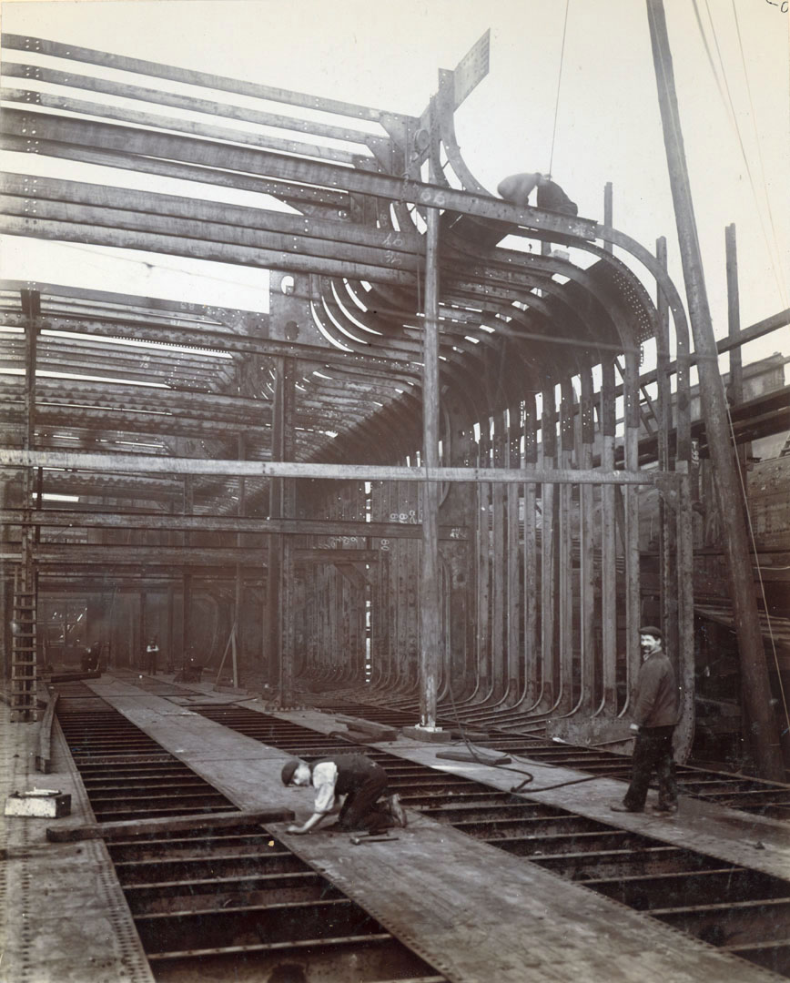 This is a view of the turret ship ‘Grangesberg’ under construction by William Doxford & Sons, Pallion, c1903. Reference: DS.DOX/4/PH/3/2 Sunderland has a remarkable history of innovation in shipbuilding and marine engineering. From the development of turret ships in the 1890s and the production of Doxford opposed piston engines after the First World War through to the designs for Liberty ships in the 1940s and SD14s in the 1960s. Sunderland has much to be proud of. Tyne & Wear Archives cares for tens of thousands of photographs in its shipbuilding collections. Most of these focus on the ships – in particular their construction, launch and sea trials. This set looks to redress the balance and to celebrate the work of the men and women who have played such a vital part in the region’s history. The images show the human side of this great story, with many relating to the world famous shipbuilding and engineering firm William Doxford & Sons Ltd. The Archives has produced (Copyright) We're happy for you to share these digital images within the spirit of The Commons. Please cite 'Tyne & Wear Archives & Museums' when reusing. Certain restrictions on high quality reproductions and commercial use of the original physical version apply though; if you're unsure please